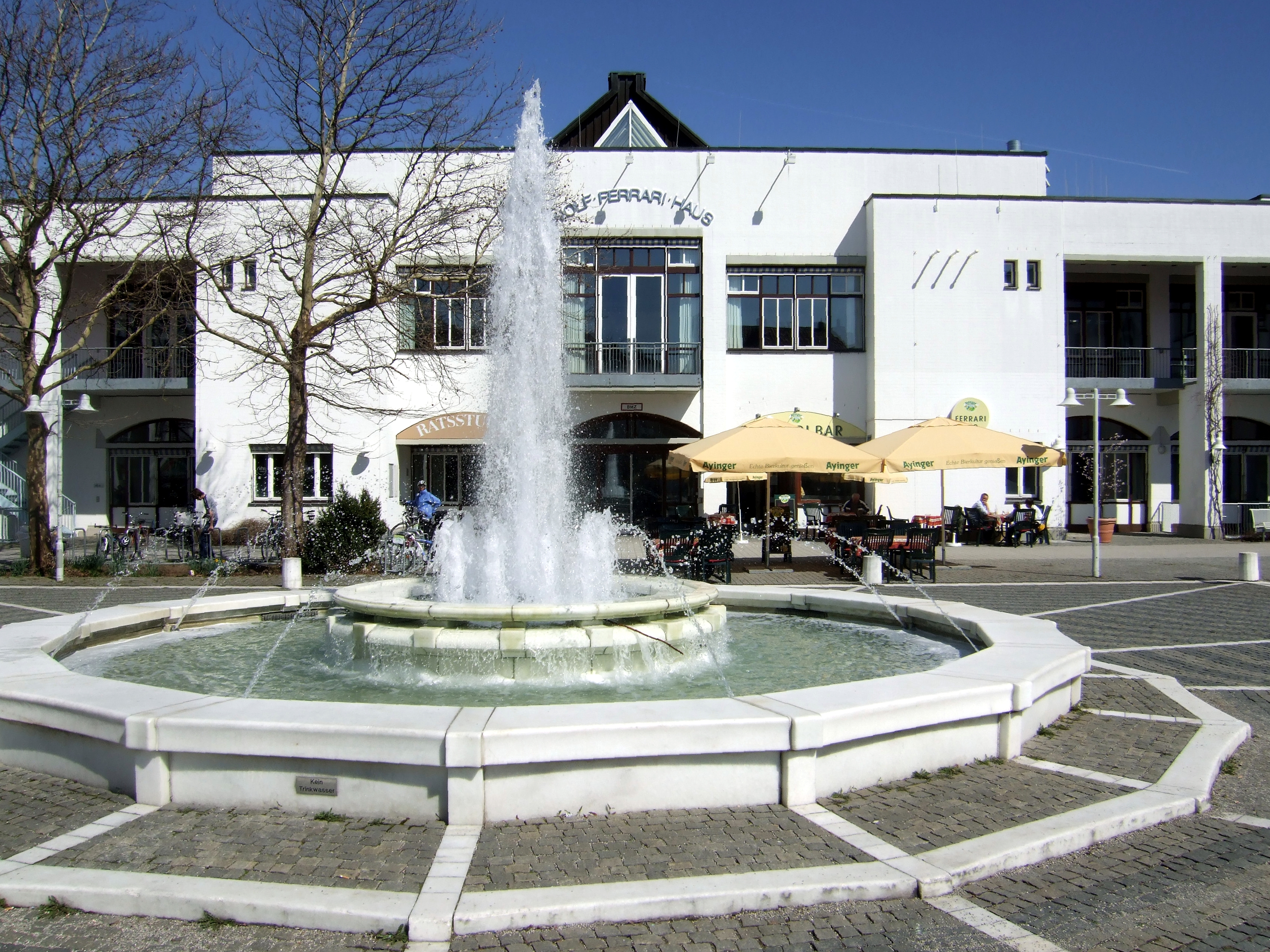 Ottobrunn: Wolf-Ferrari-Haus and fountain